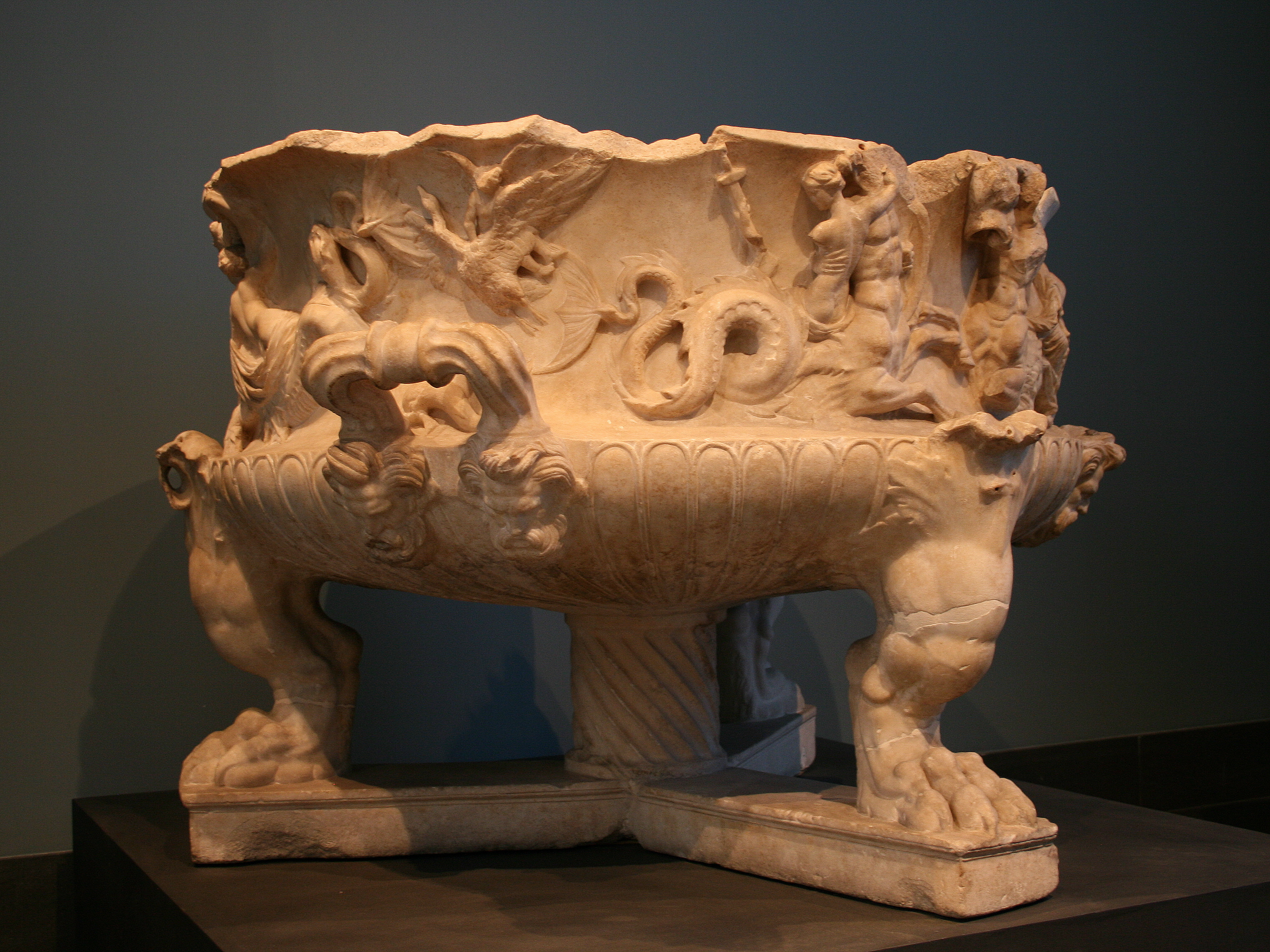 Neo-Attic vase of white marble, Roman artwork found on Lungotevre in Sassia, early Ist century BC.